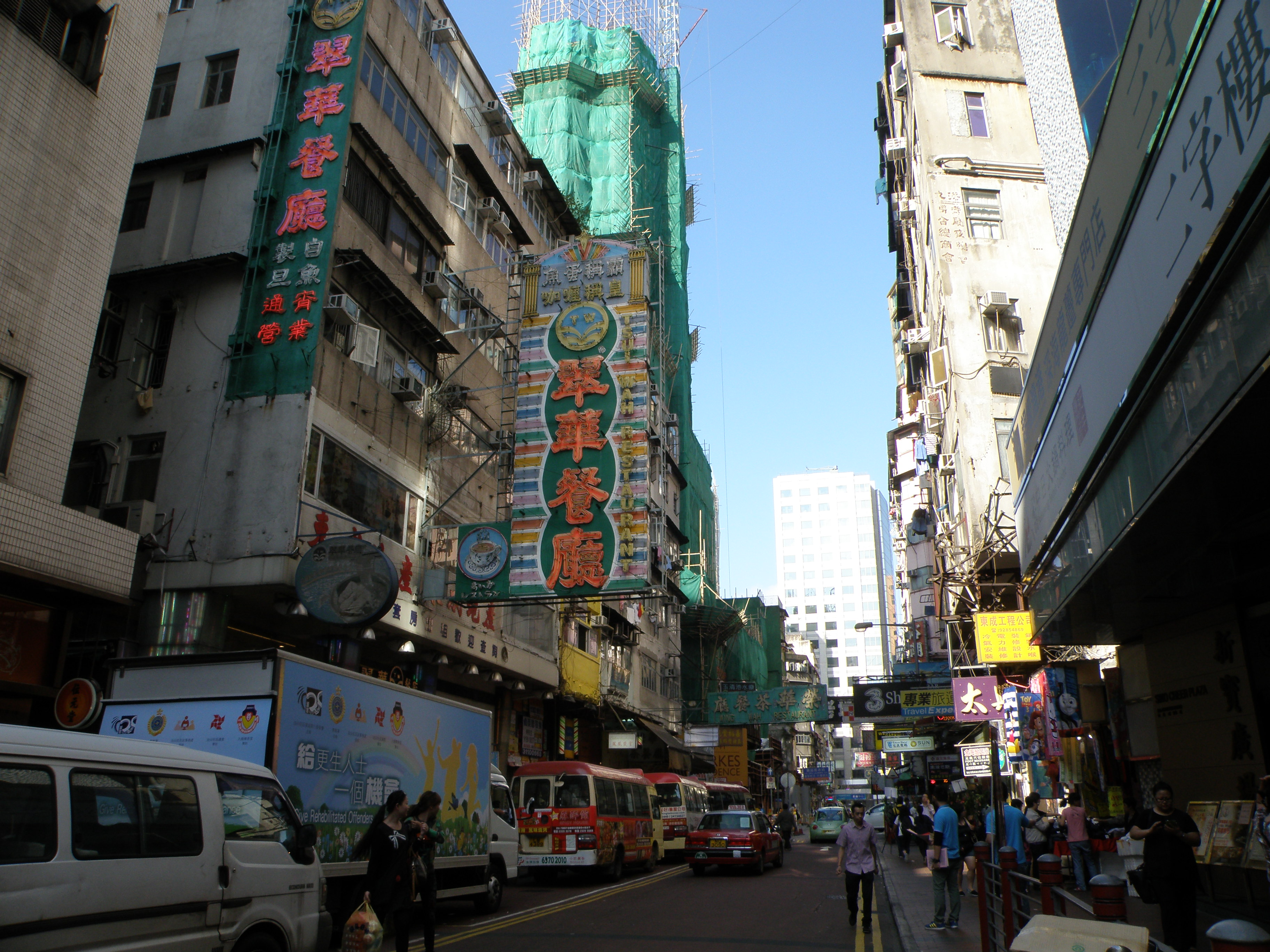 Parkes Street in Jordan, Hong Kong.